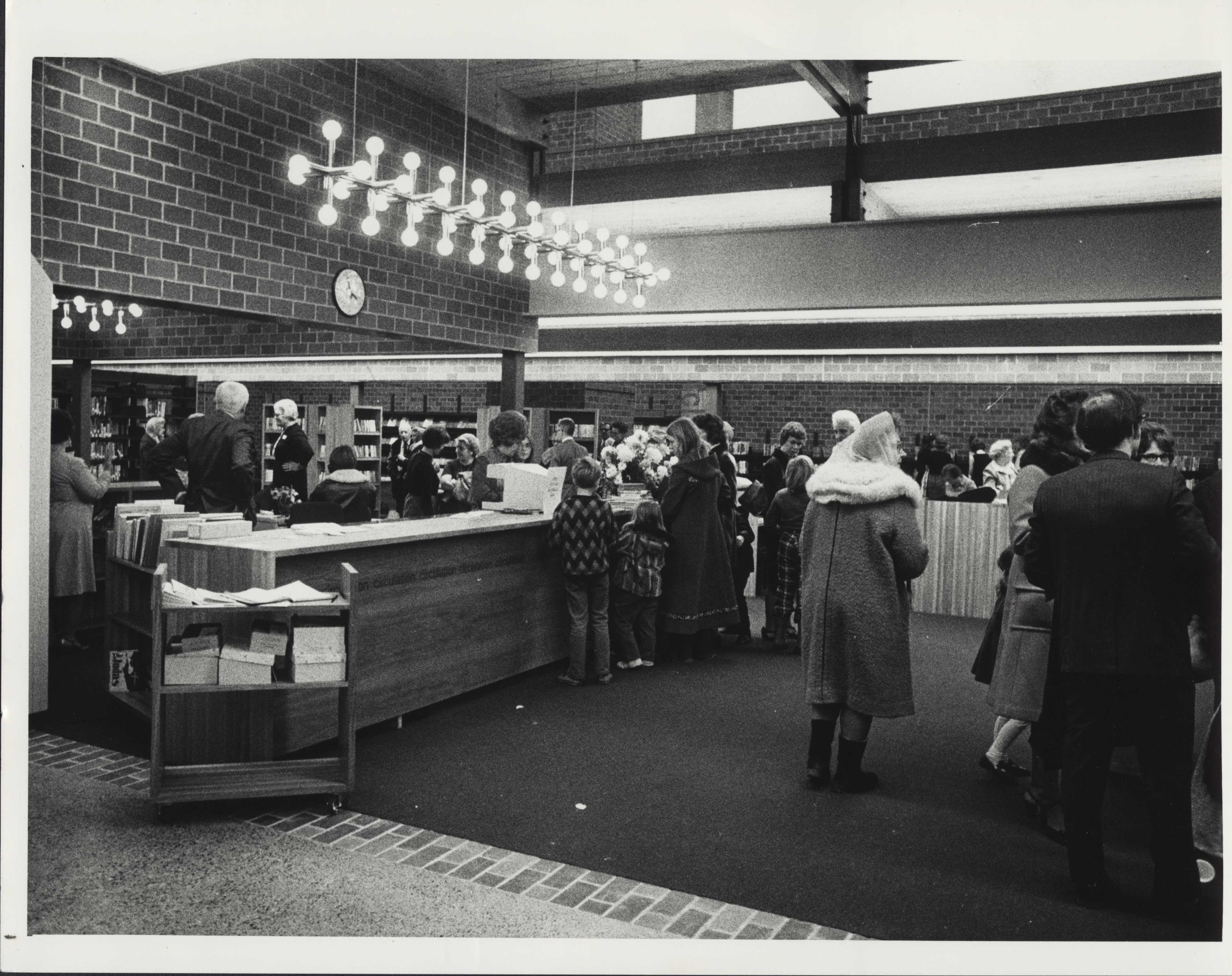 The Northeast Library was built at 2200 Central Avenue N.E. in Minneapolis in 1973 to replace the Central Avenue branch of Minneapolis Public Library that had been built in 1915 and demolished in 1972.